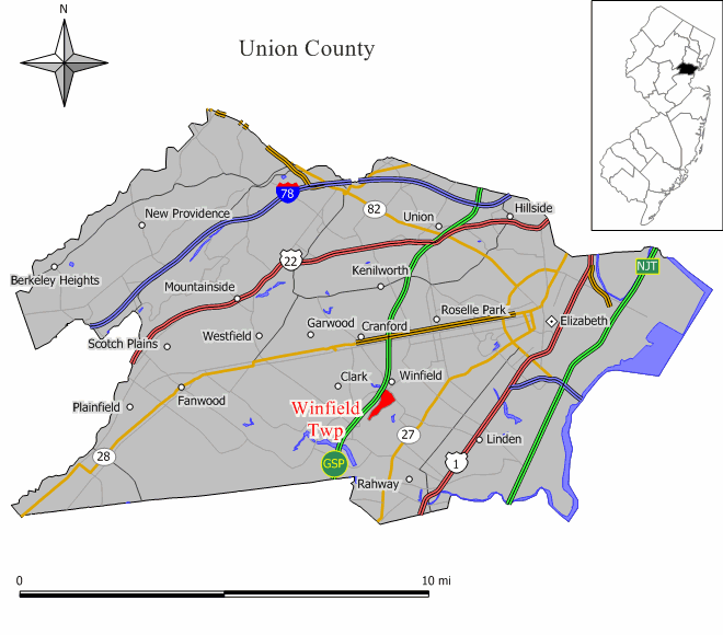 Source: Jim Irwin Original work by Jim Irwin, December 2005.